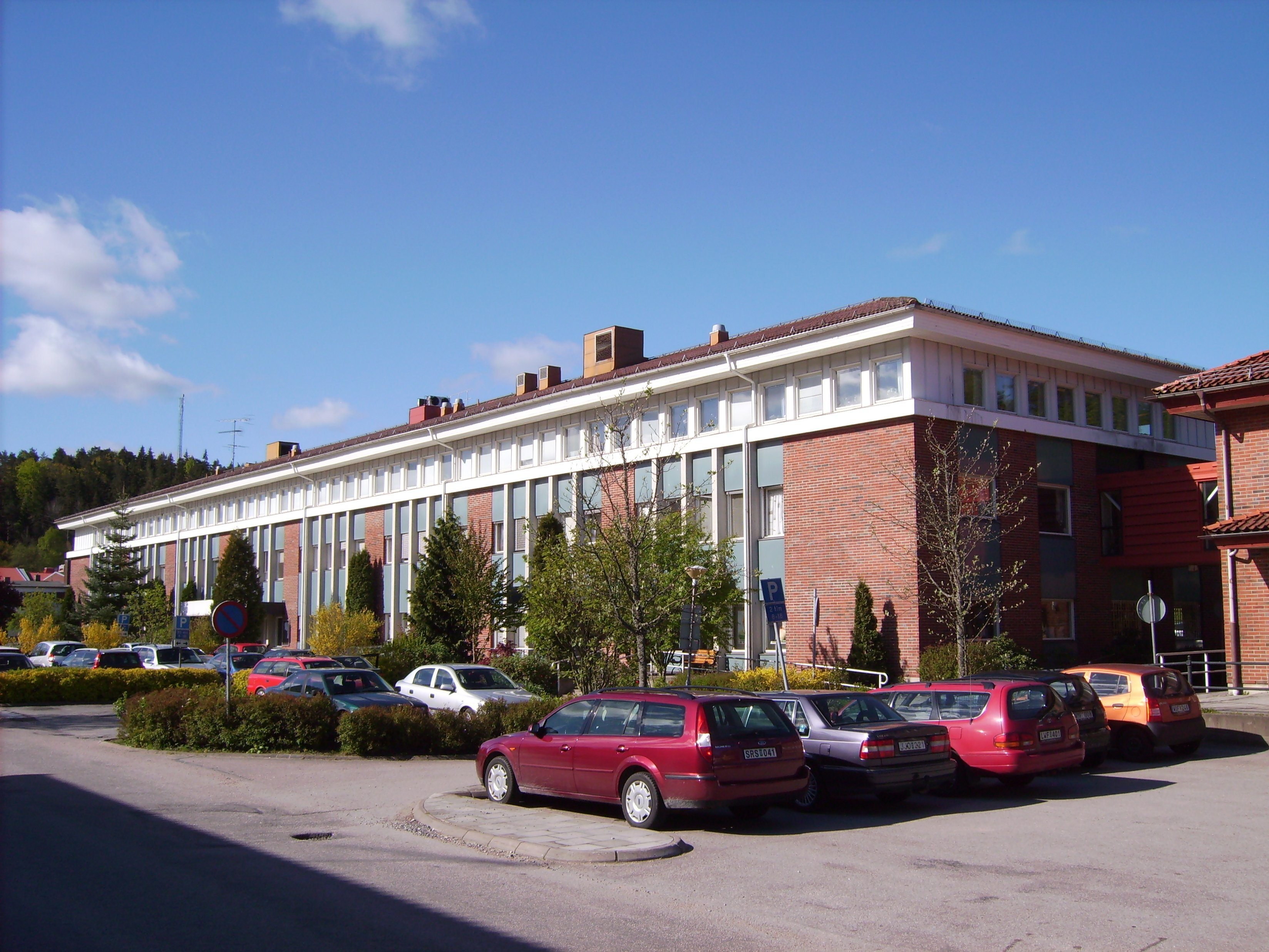 The urban district Henån on island and also own municipality Orust on the west coast of Sweden.